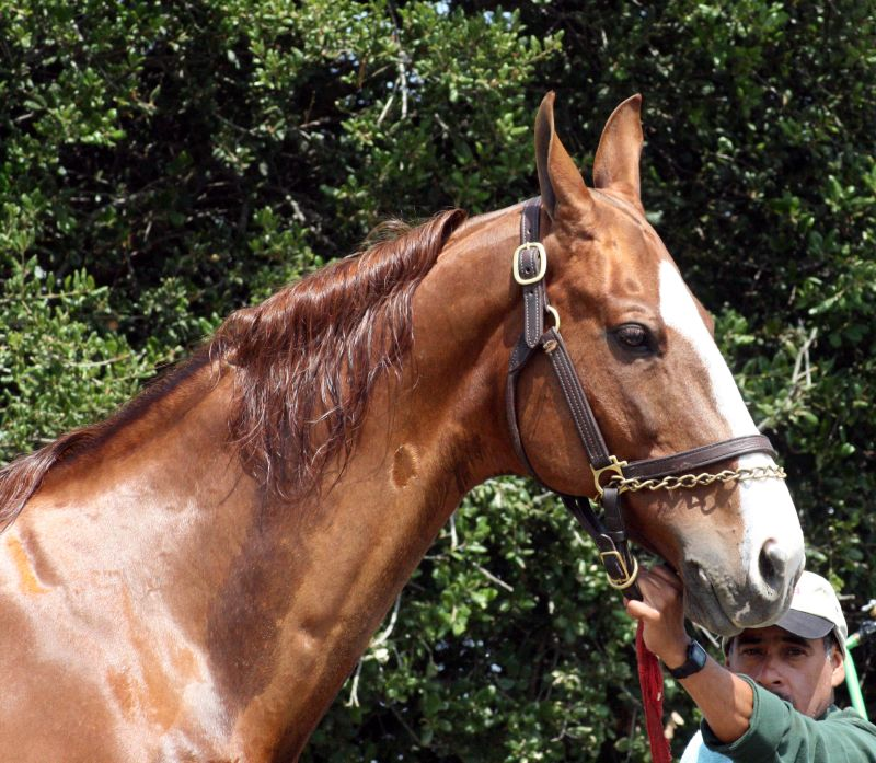 American Saddlebred